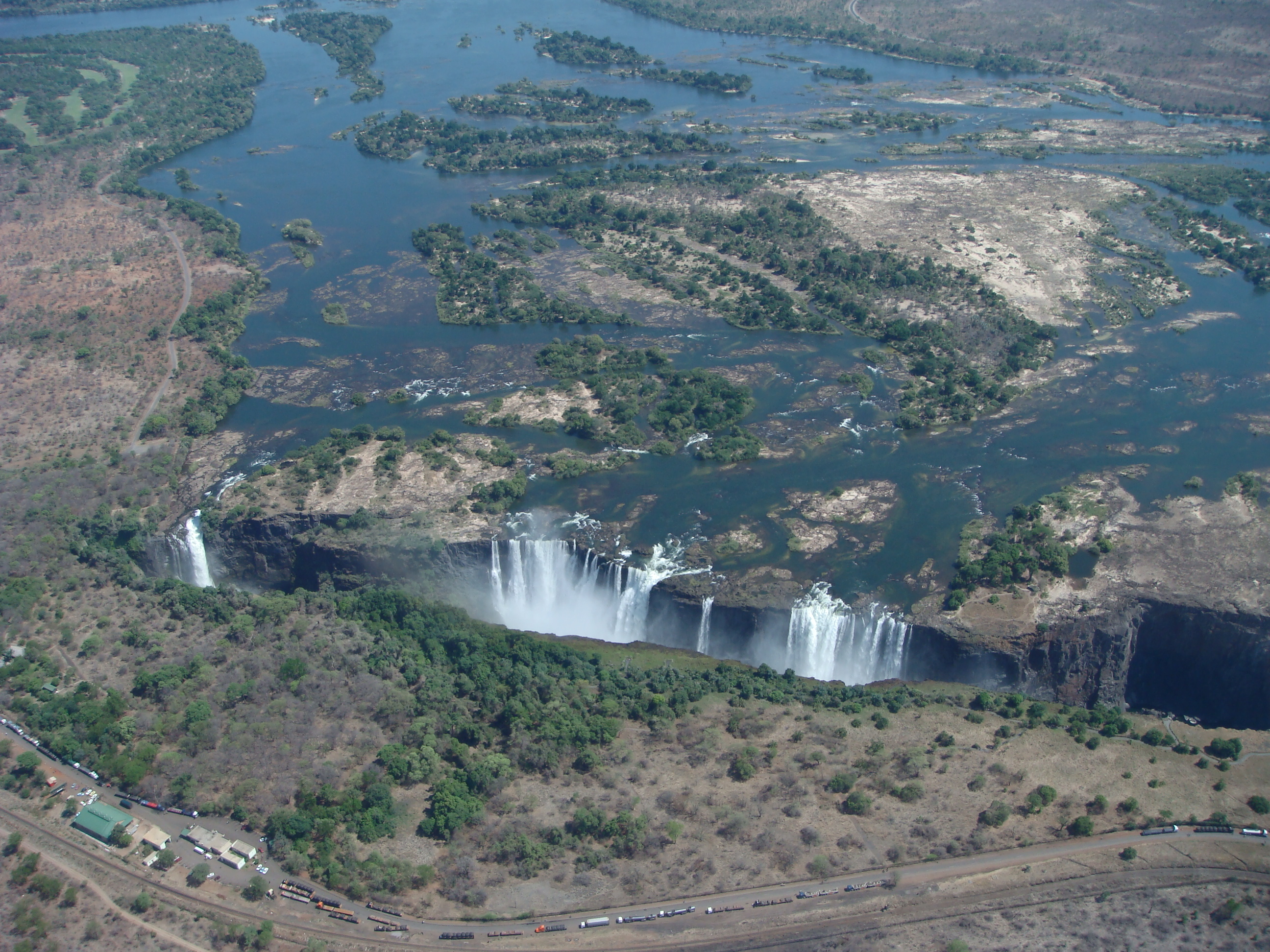 The Victoria Falls or Mosi-oa-Tunya (the Smoke that Thunders) is a waterfall situated in southern Africa between the countries of Zambia and Zimbabwe. The falls are, by some measures, the largest waterfall in the world, as well as being among the most unusual in form, and having arguably the most diverse and easily-seen wildlife of any major waterfall site. Although Victoria Falls constitute neither the highest nor the widest waterfall in the world, the claim it is the largest is based on a width of 1.7 km (1 mile) and height of 108 m (360 ft), forming the largest sheet of falling water in the world. The falls' maximum flow rate compares well with that of other major waterfalls . The unusual form of Victoria Falls enables virtually the whole width of the falls to be viewed face-on, at the same level as the top, from as close as 60 m (200 ft), because the whole Zambezi River drops into a deep, narrow slotlike chasm, connected to a long series of gorges. Few other waterfalls allow such a close approach on foot. Many of Africa's animals and birds can be seen in the immediate vicinity of Victoria Falls, and the continent's range of river fish is also well represented in the Zambezi, enabling wildlife viewing and sport fishing to be combined with sightseeing. Victoria Falls are one of Africa's major tourist attractions, and are a UNESCO World Heritage Site (see box below). The falls are shared between Zambia and Zimbabwe, and each country has a national park to protect them and a town serving as a tourism centre: Mosi-oa-Tunya National Park and Livingstone in Zambia, and Victoria Falls National Park and the town of Victoria Falls in Zimbabwe.